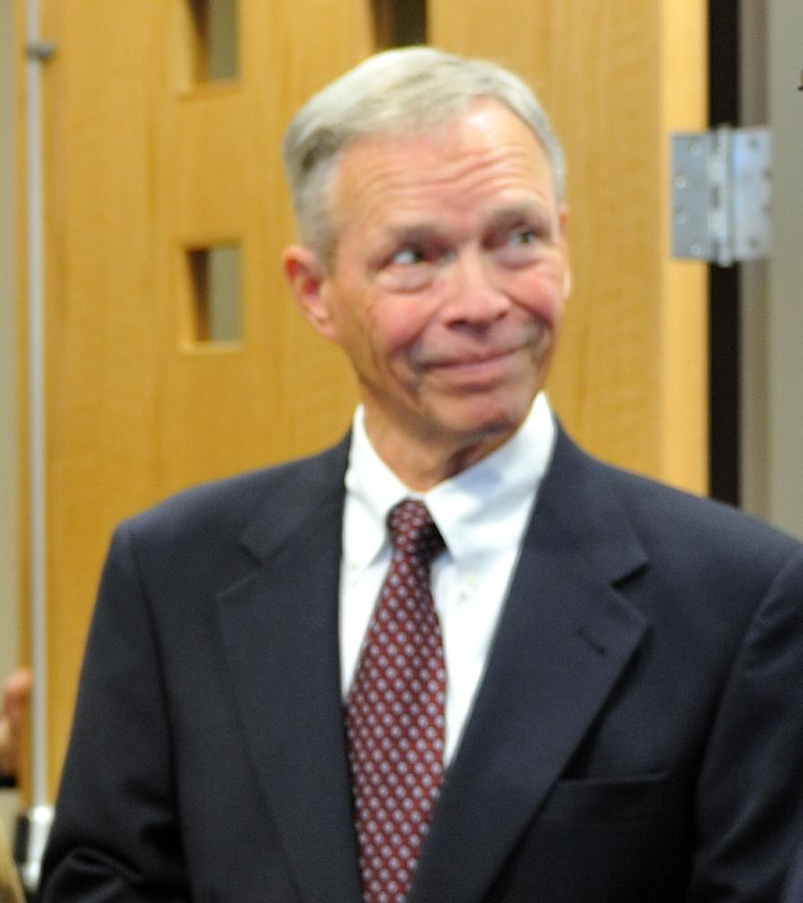 Former Governor of Florida Buddy MacKay